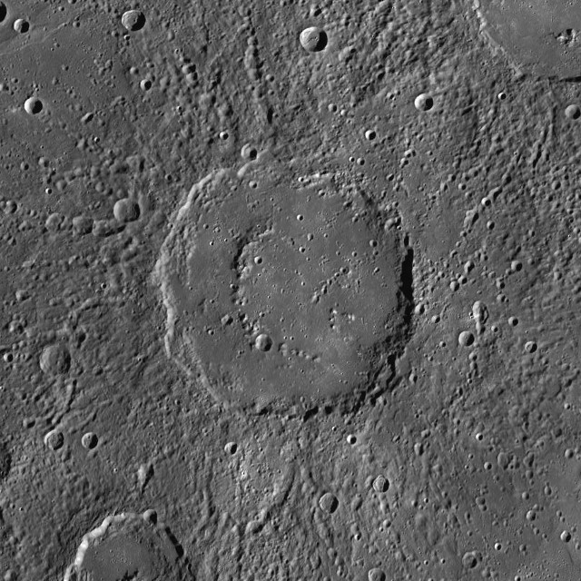 Strindberg crater, on Mercury. MESSENGER Wide Angle Camera mosaic. Image is approximately 422 km wide.